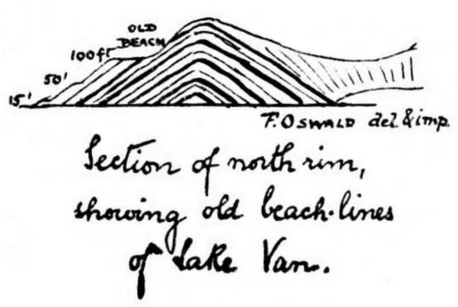 Sheikh Ora crater. Plan of crater, scale about 1 mile = 1 inch. Section of north rim showing old beach lines of Lake Van.